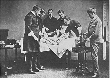 clean room history, part1